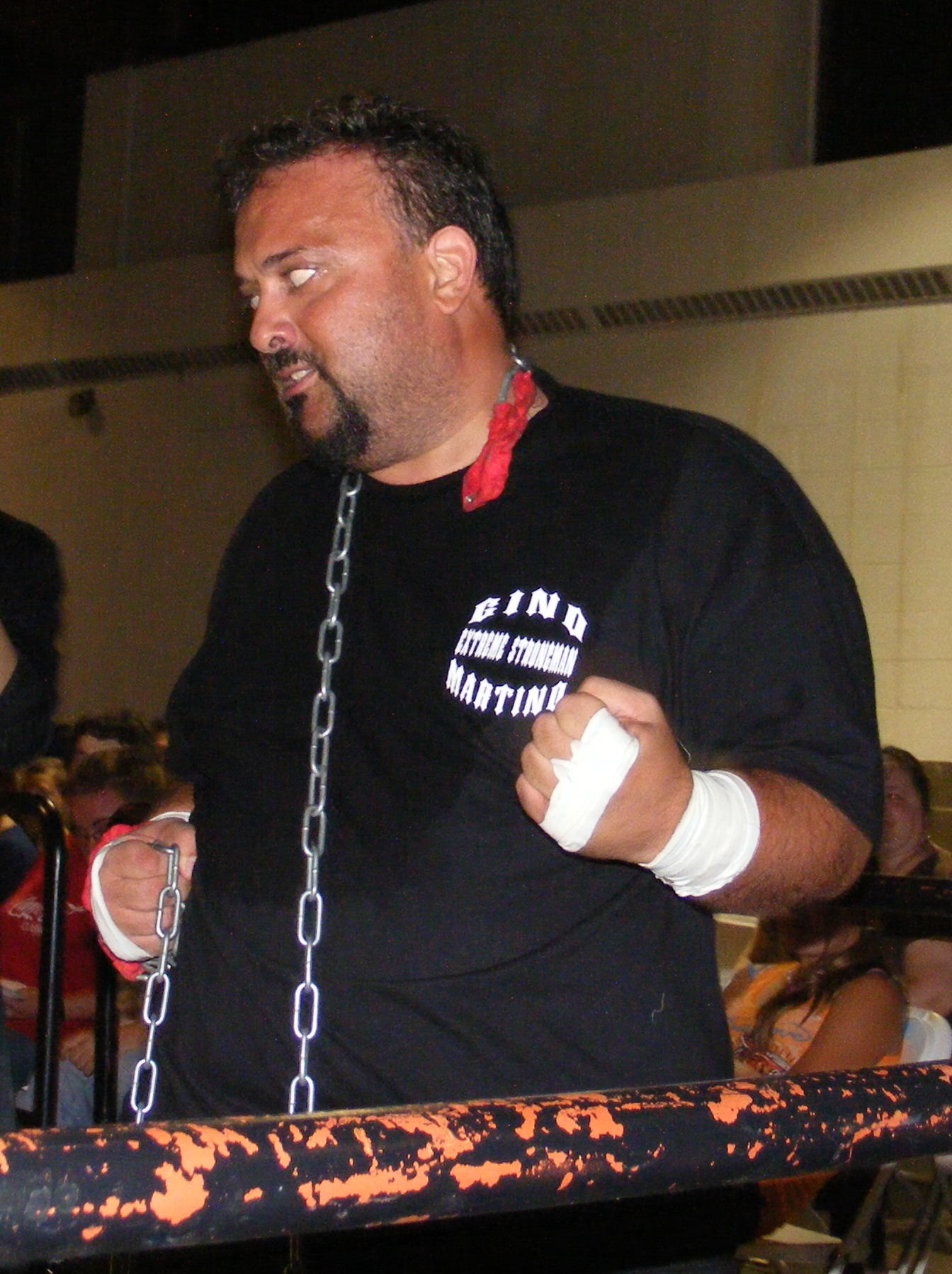 Professional wrestler Gino Martino at a Powerhouse show in Worcester in September 2008. Cropped from original.